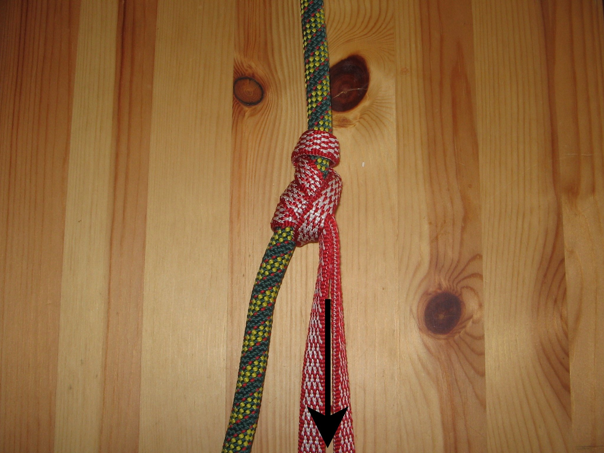 How to tie a Prusik knot. Step 5. Uploaded by Stewart Adcock, 29 May 2005 (UTC)